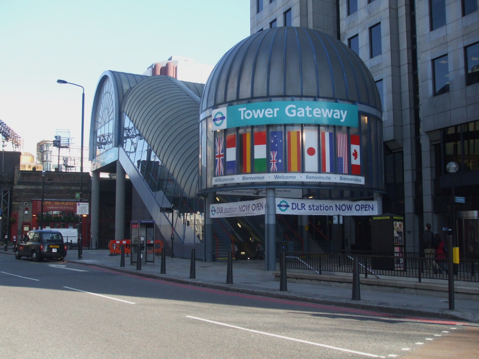 Tower Gateway DLR station entrance, a few days after reopening in March 2009